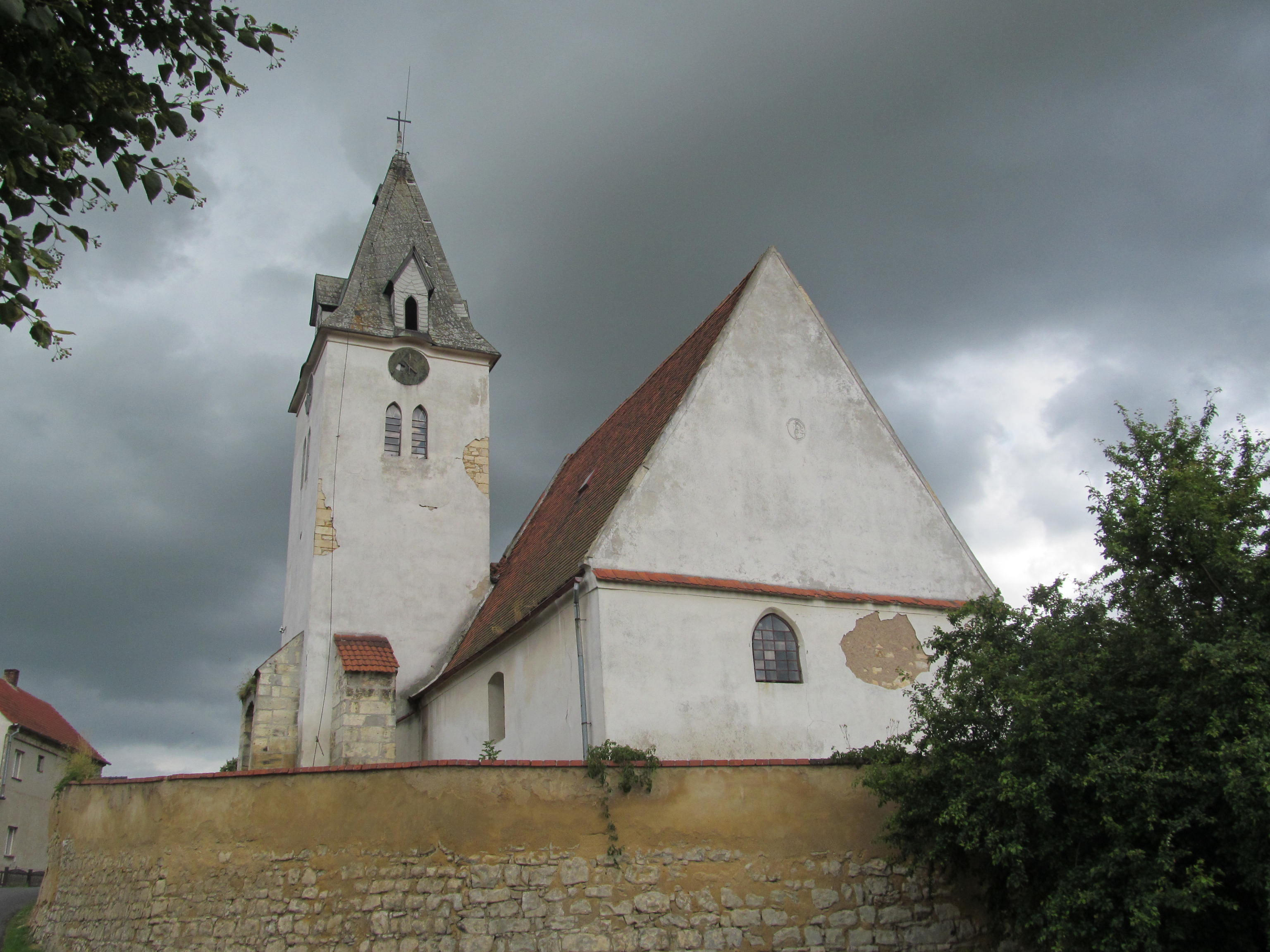 Church of Saint Michael in Bitozeves from West